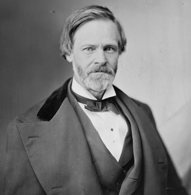 John Sherman of Ohio.